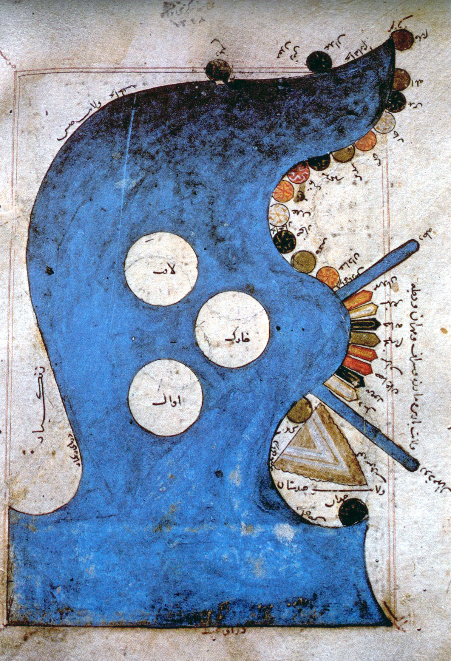 Map of the Persian Gulf from a 8-9th century AH (14-15th century AD) Persian translation by al-Istakhri at the Central Library, Tehran University.